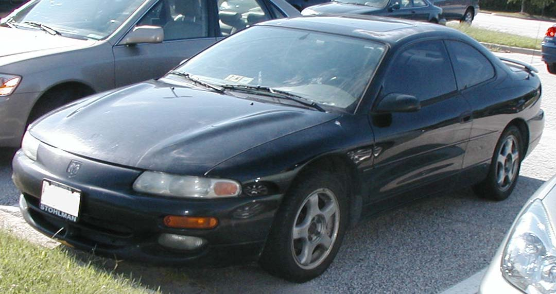 1995-2000 Dodge Avenger photographed in USA.